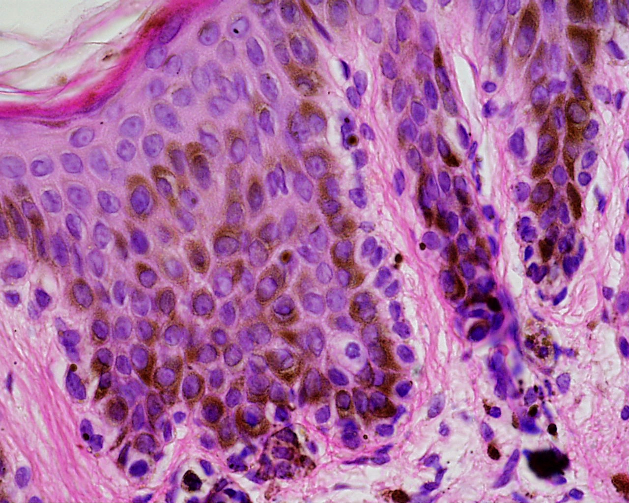 Lentigo simplex or simple lentigo